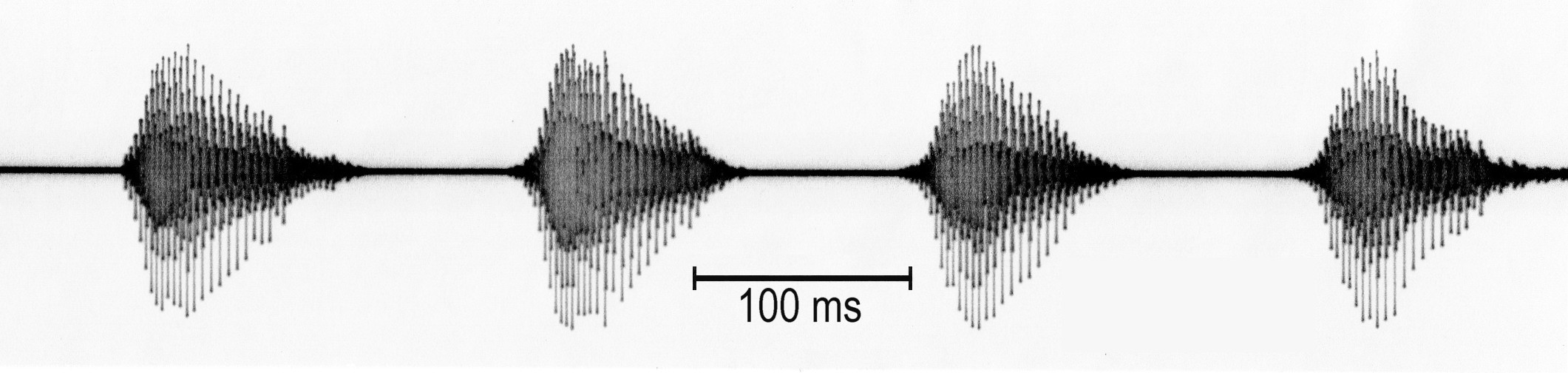 Sound image (oscillogram) of a mating call with four pulse groups, recorded on tape in the valley of the Gallikos, Greece, at 20.3 ° Celsius water temperature.